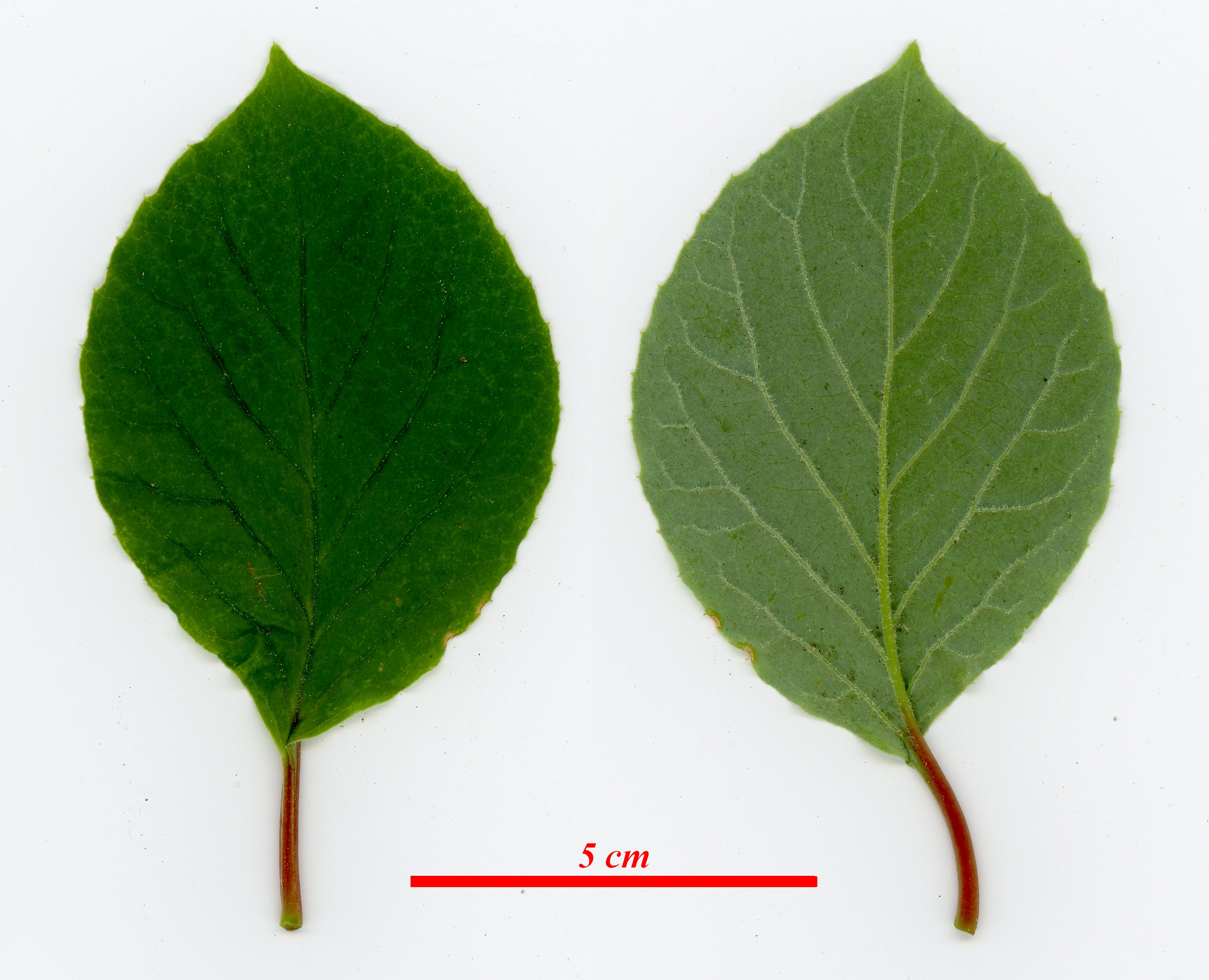 Schisandra chinensis leaves top side and bottom side